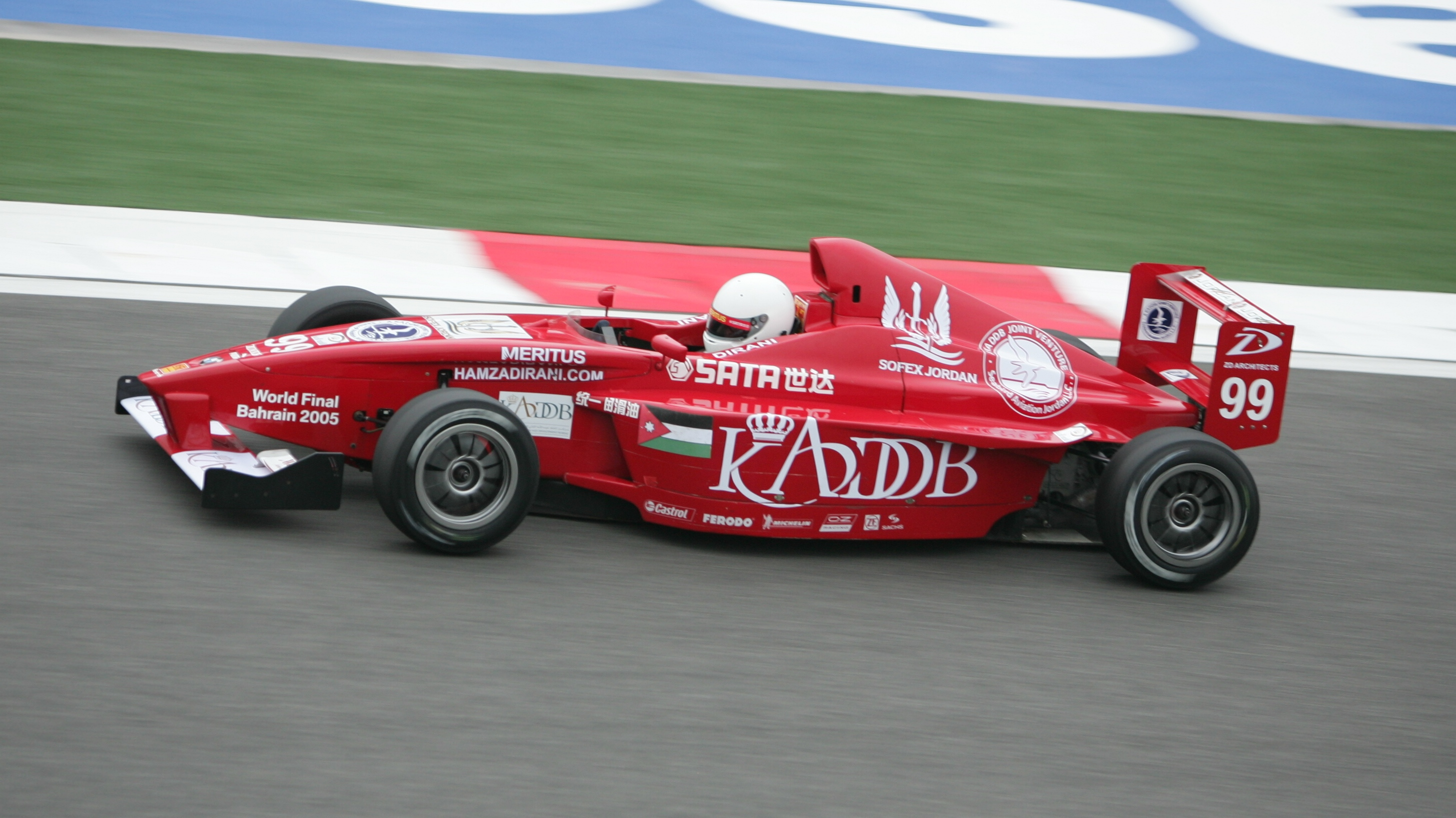 Formula BMW